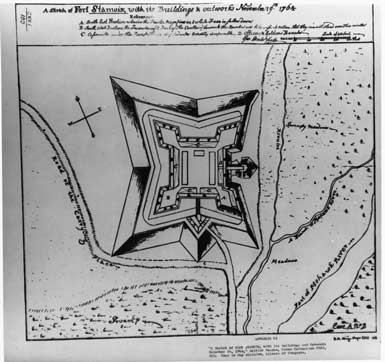 Sketch from 1764 of Fort Stanwix National Monument, Rome, New York, USA